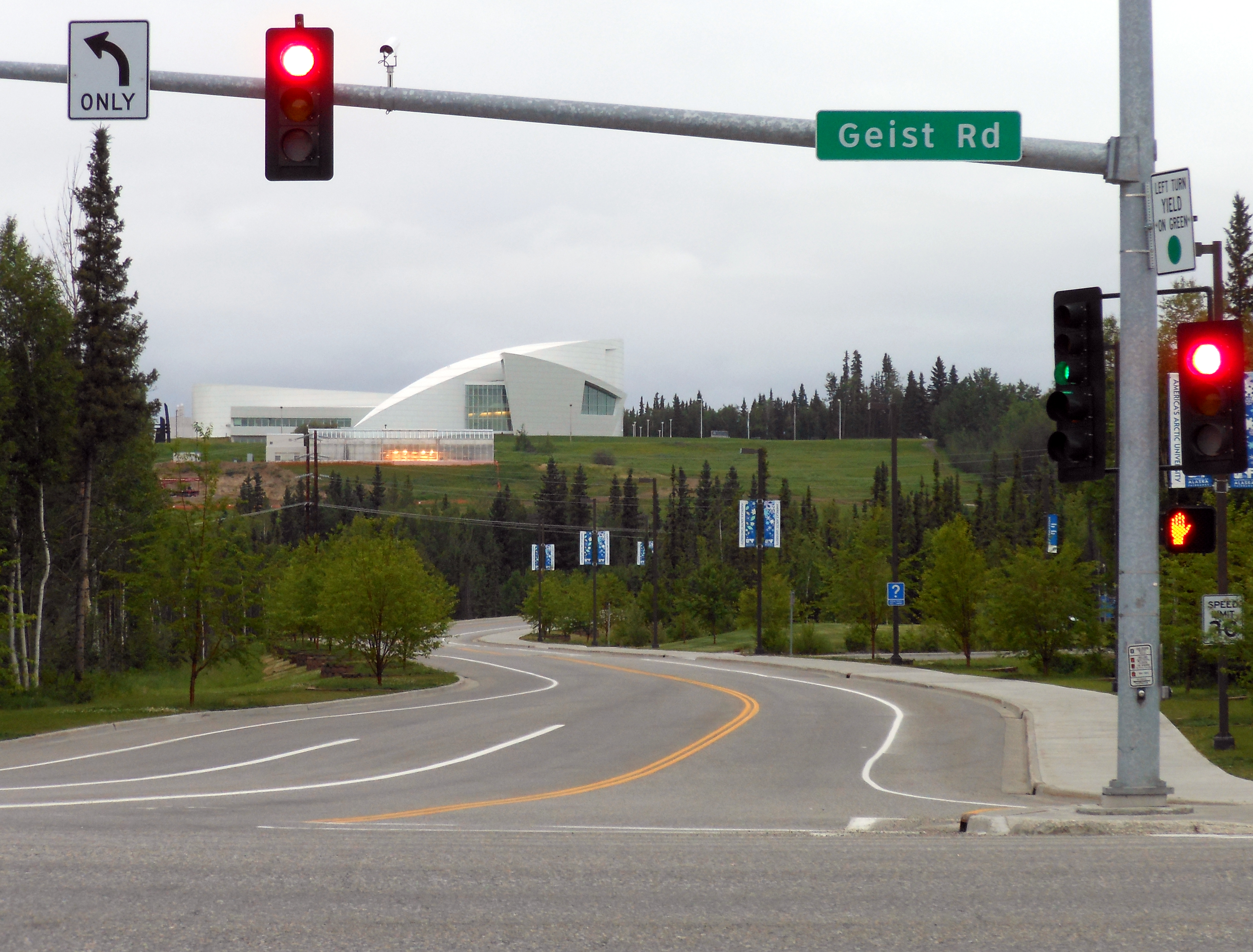 Otto W. Geist (1888-1963) left a considerable mark on what is now the University of Alaska Fairbanks during his association with the university in the middle 20th century. Despite coming from a mining background and lacking a terminal degree, his renown as an archaeologist and paleontologist rivaled that of more credentialed colleagues. Shown in this photo are two memorials. In the foreground is Geist Road, a major thoroughfare in the western suburbs of Fairbanks. Geist Road runs along the section line marking the southern edge of the UAF campus. In the background is the University of Alaska Museum of the North. Various buildings housing the museum over the decades have been formally known as the Otto W. Geist Building, including this one.